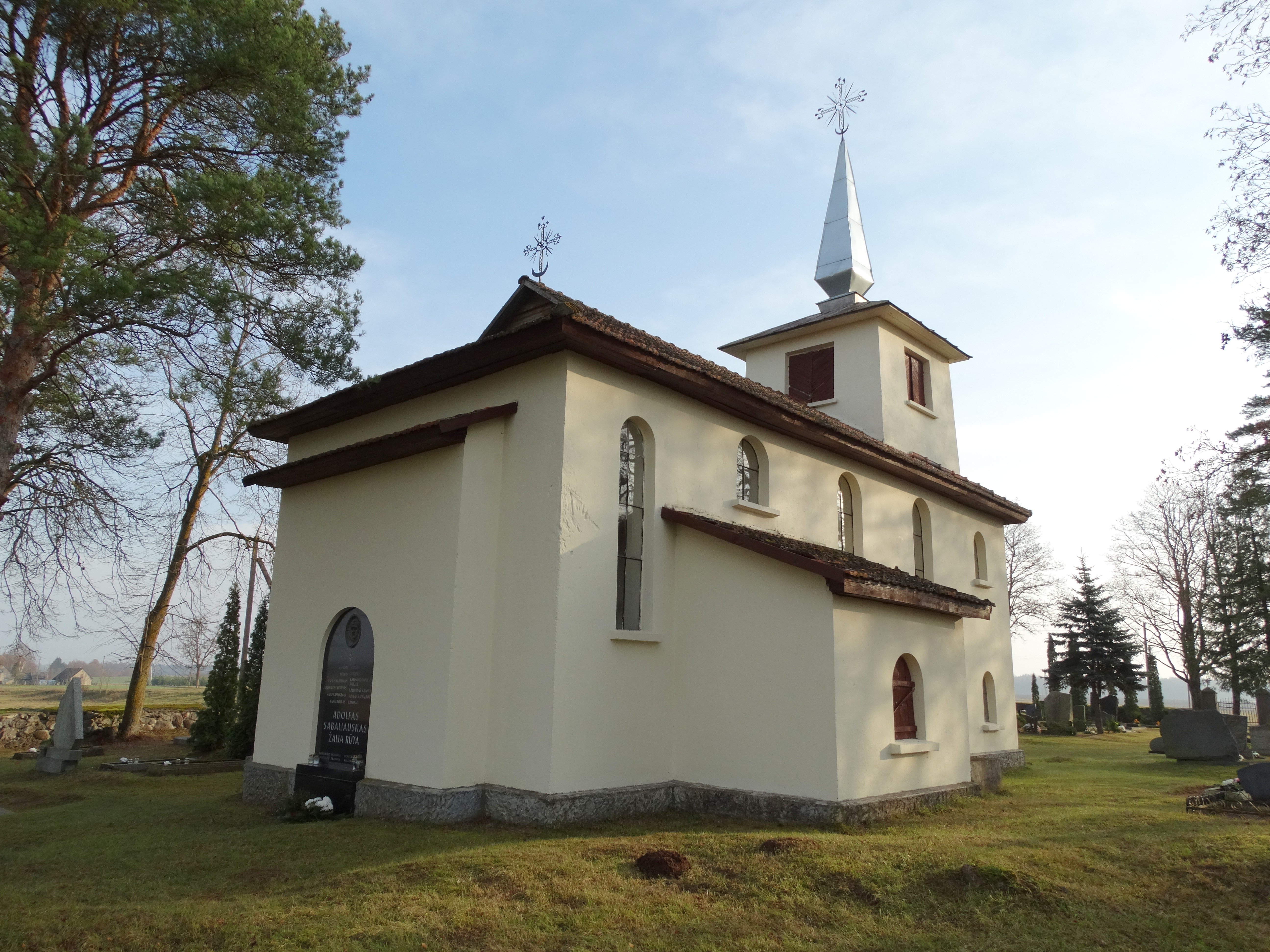 Chapel in Mieleišiai, Biržai district, Lithuania